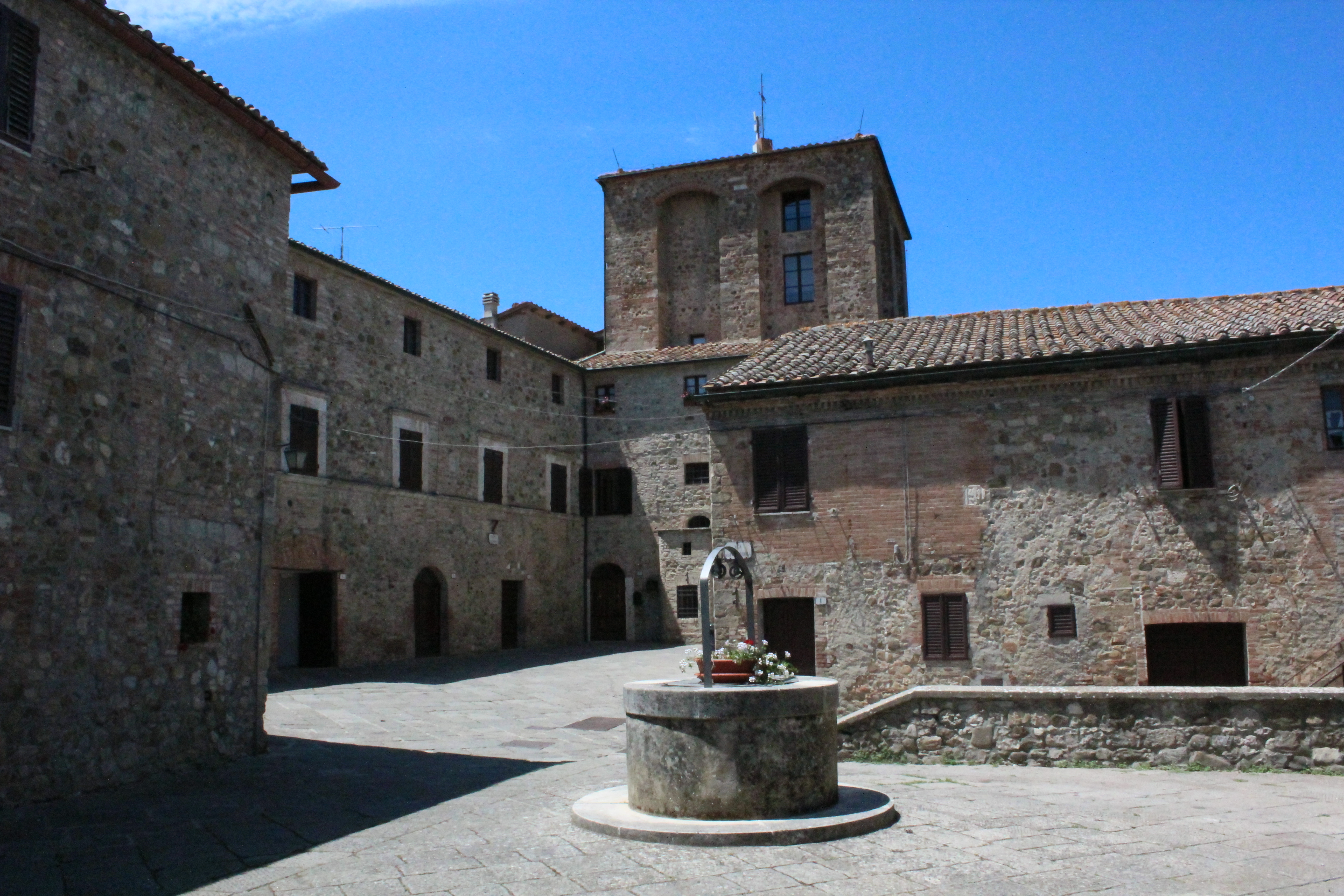 Square and well in Contignano, hamlet of Radicofani, Val d’Orcia, Province of Siena, Tuscany, Italy